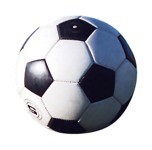 A soccer/football ball.